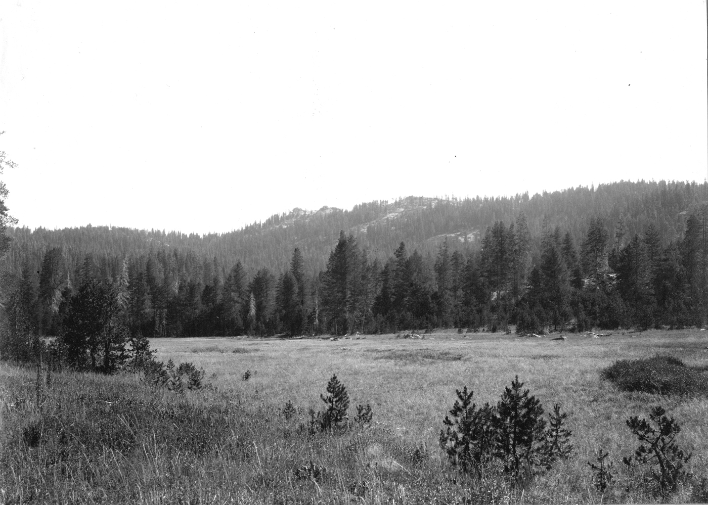 Yosemite National Park, California. Lower McGurk Meadow. Ostrander Rocks in background.